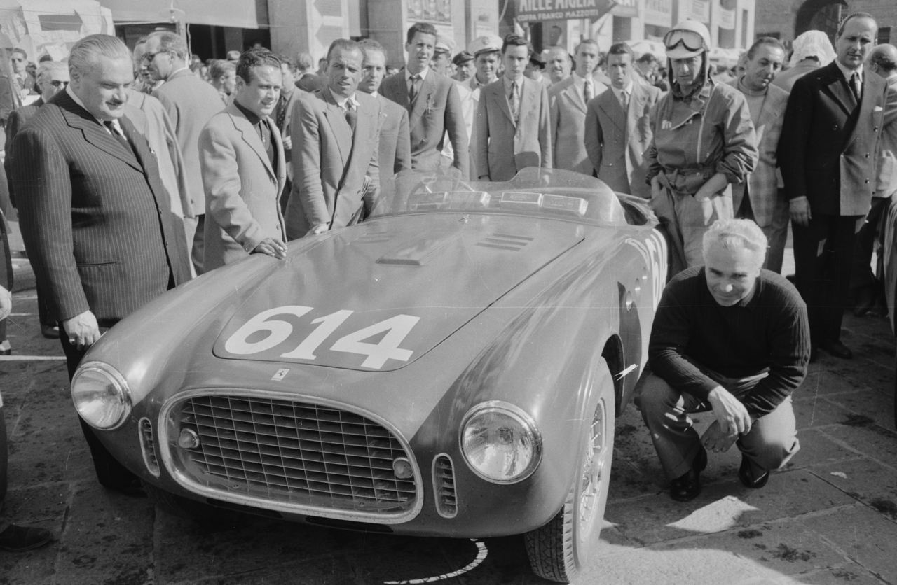 Entry #614 at Mille Miglia on 3 May 1952 was this 1952 Ferrari 340 America Vignale Spyder s/n 0196A driven by Piero Taruffi (sitting next to the car) and Mario Vandelli (standing behind, in racing suit and goggles). They did not finish the race.[1]